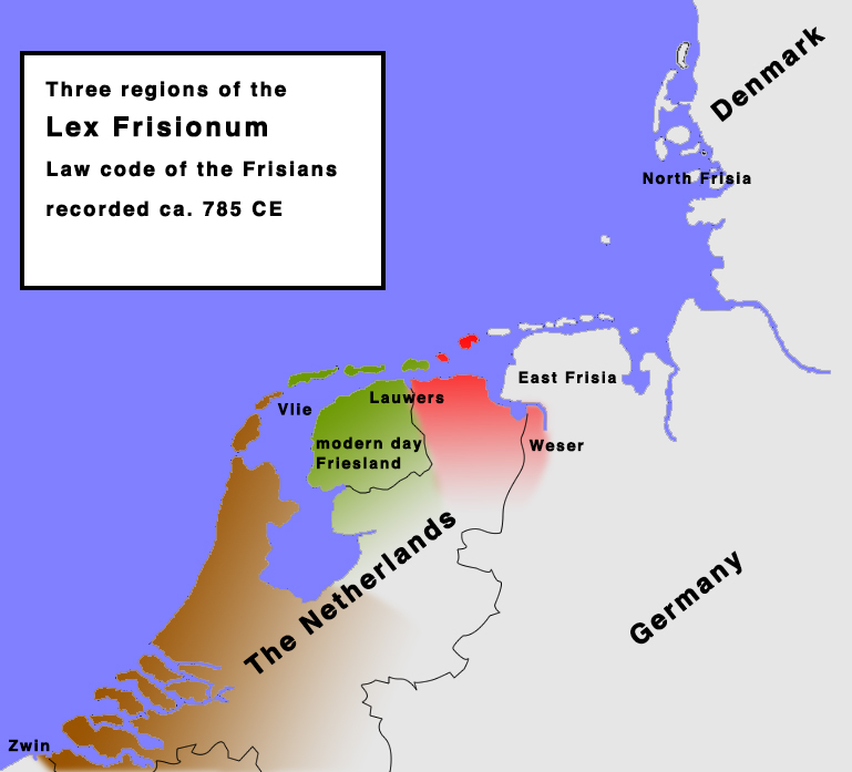 The three regions of the Lex Frisionum, with the river Weser incorrectly indicated (should be the river estuary east of East Frisia)